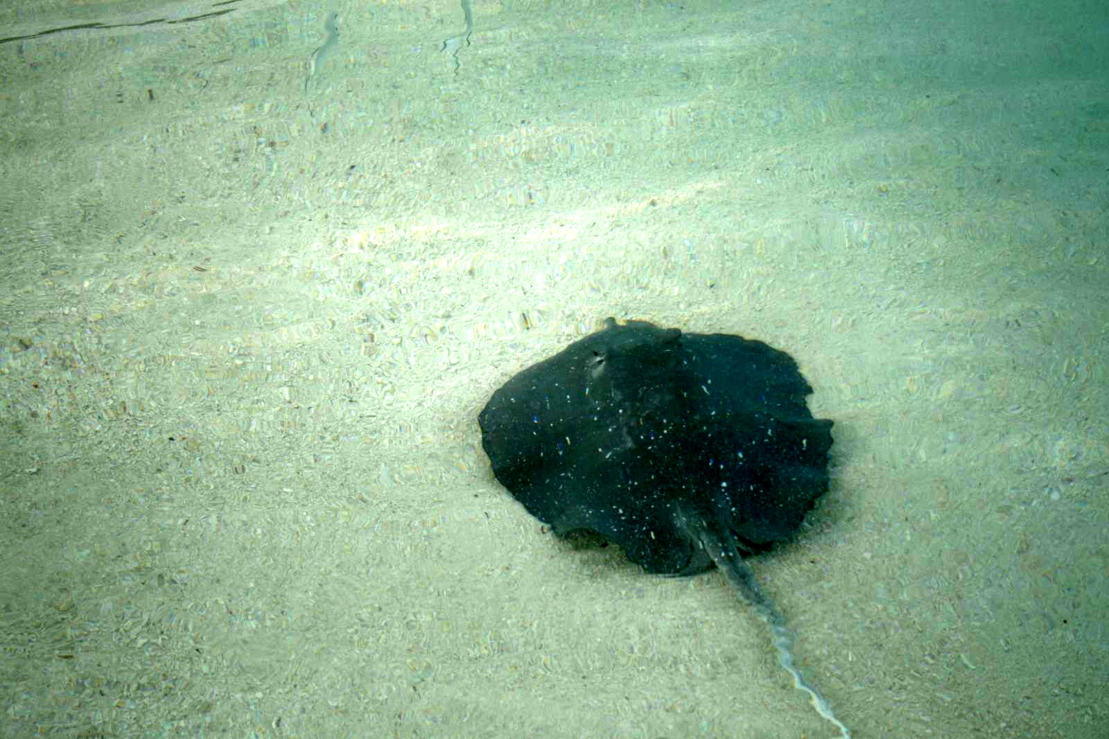 Mangrove whipray (Himantura granulata) at Baa Atoll. Reethi Beach Resort